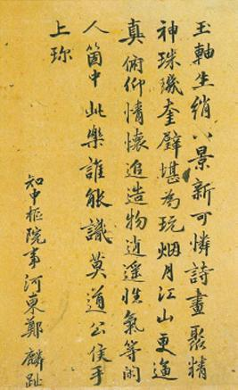 Letter of Jeong Inji 1443's